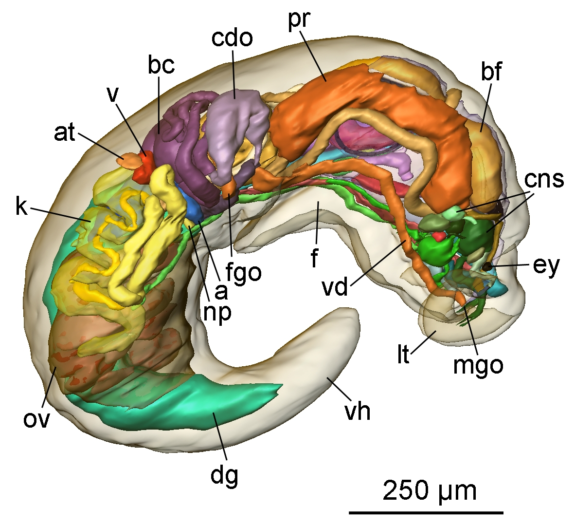 3D reconstruction of the general anatomy of the right view of small marine slug Pseudunela cornuta. It is a 3D model generated from 420 histological sections by segmentation and surface extraction. - The histological sections have been aligned and stacked together to form a 3D volume, which was then segmented. For each segment mathematical representation of its surface was generated (boundary surface extraction) and then this 3D model was visualized by rendering the surfaces.